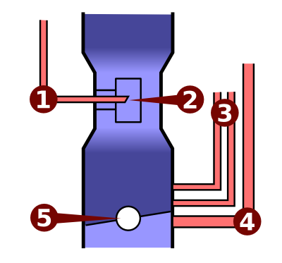 Basic principle of carburator fuel system.